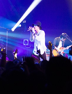 Yojiro Noda of Radwimps at Radwimps' Zepp Tokyo concert on November 28, 2015 (on their '10th Anniversary Love Tour Radwimps no Taiban' tour). Cropped from File:Radwinps2016.jpg